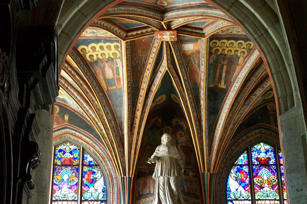 Frescoes in Chapel of the Holy Cross, Wawel Cathedral, Krakow